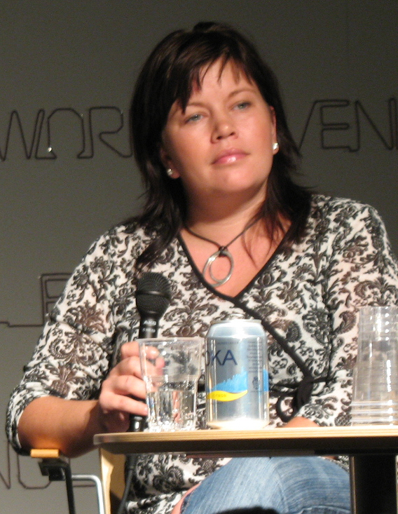 Photo of Sarah Wägnert, who has given name to the Swedish law Lex Sarah, when she visited the Swedish Book Fair in Gothenburg, September 24th, 2006.